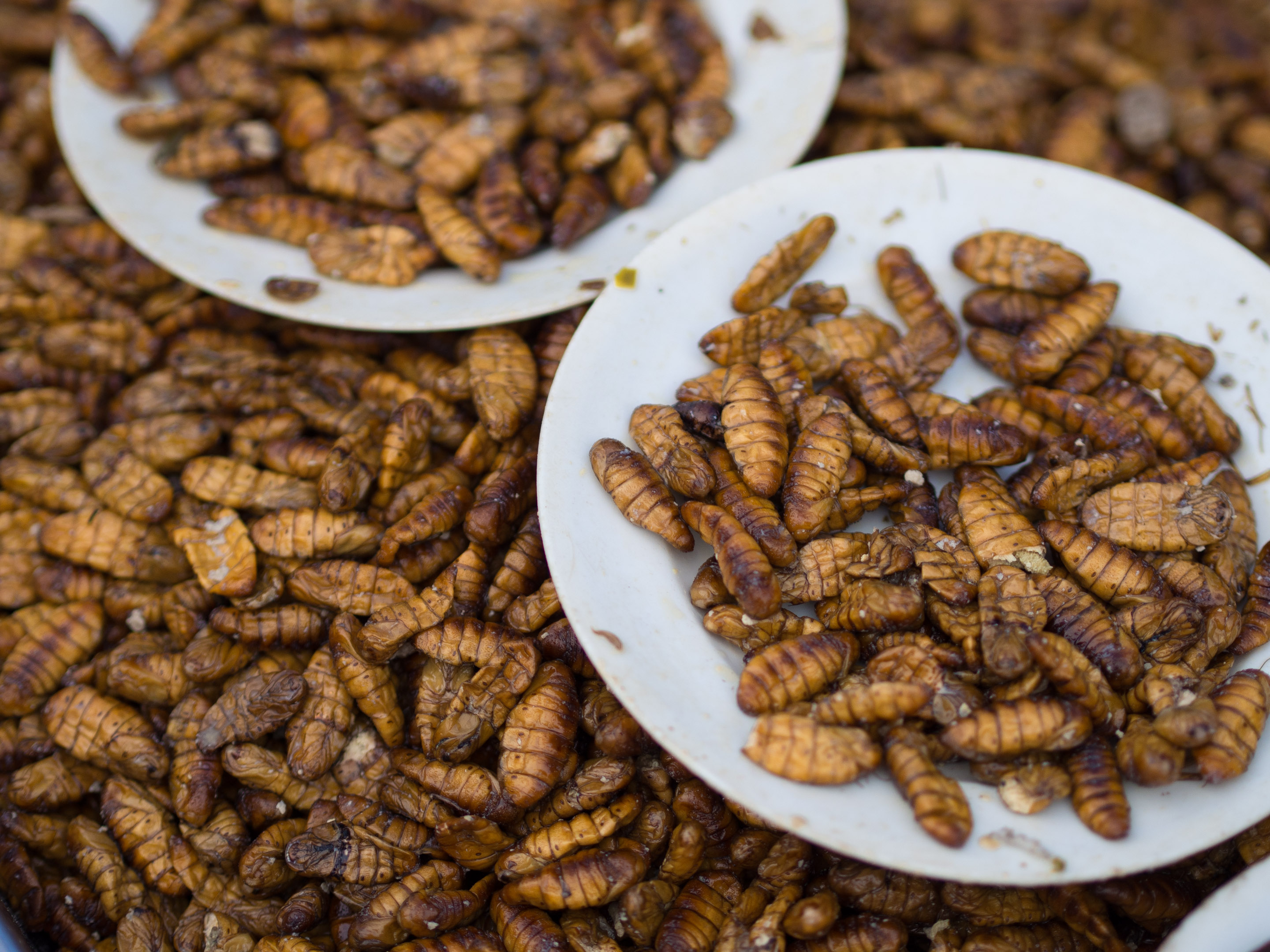 Tua mai thot (Thai script: ตัวไหมทอด) are deep-fried silkworm pupae.